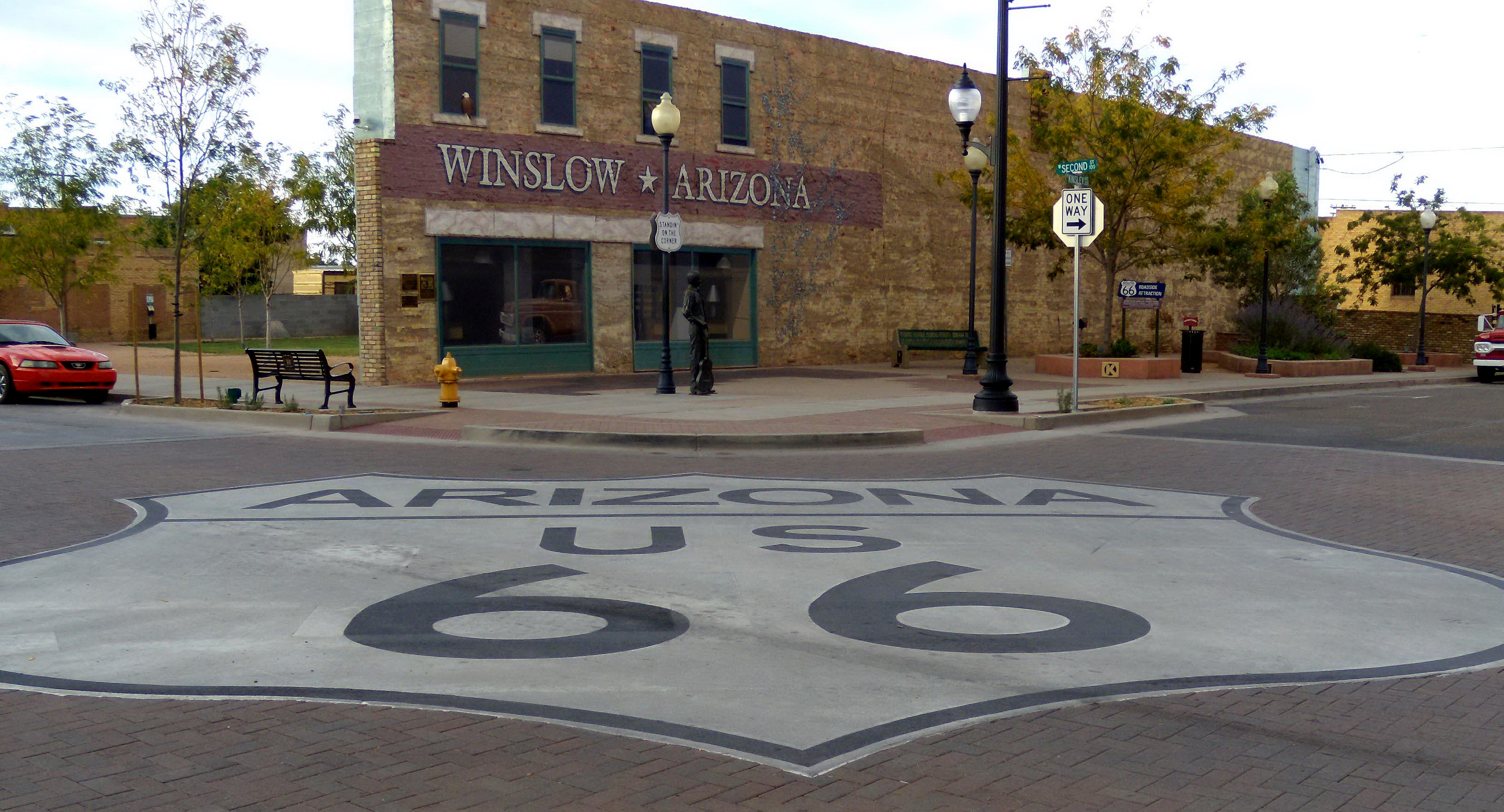 Winslow Commercial Historic District